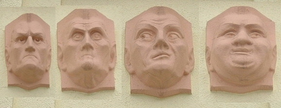 The four temperaments - (L-R) choleric, melancholic, sanguine and phlegmatic - on the wall of a house at the corner of Am Dornbusch and Eschersheimer Landstraße in Dornbusch, Frankfurt am Main, Germany. Artist unknown. The picture is a composite of four close-ups.